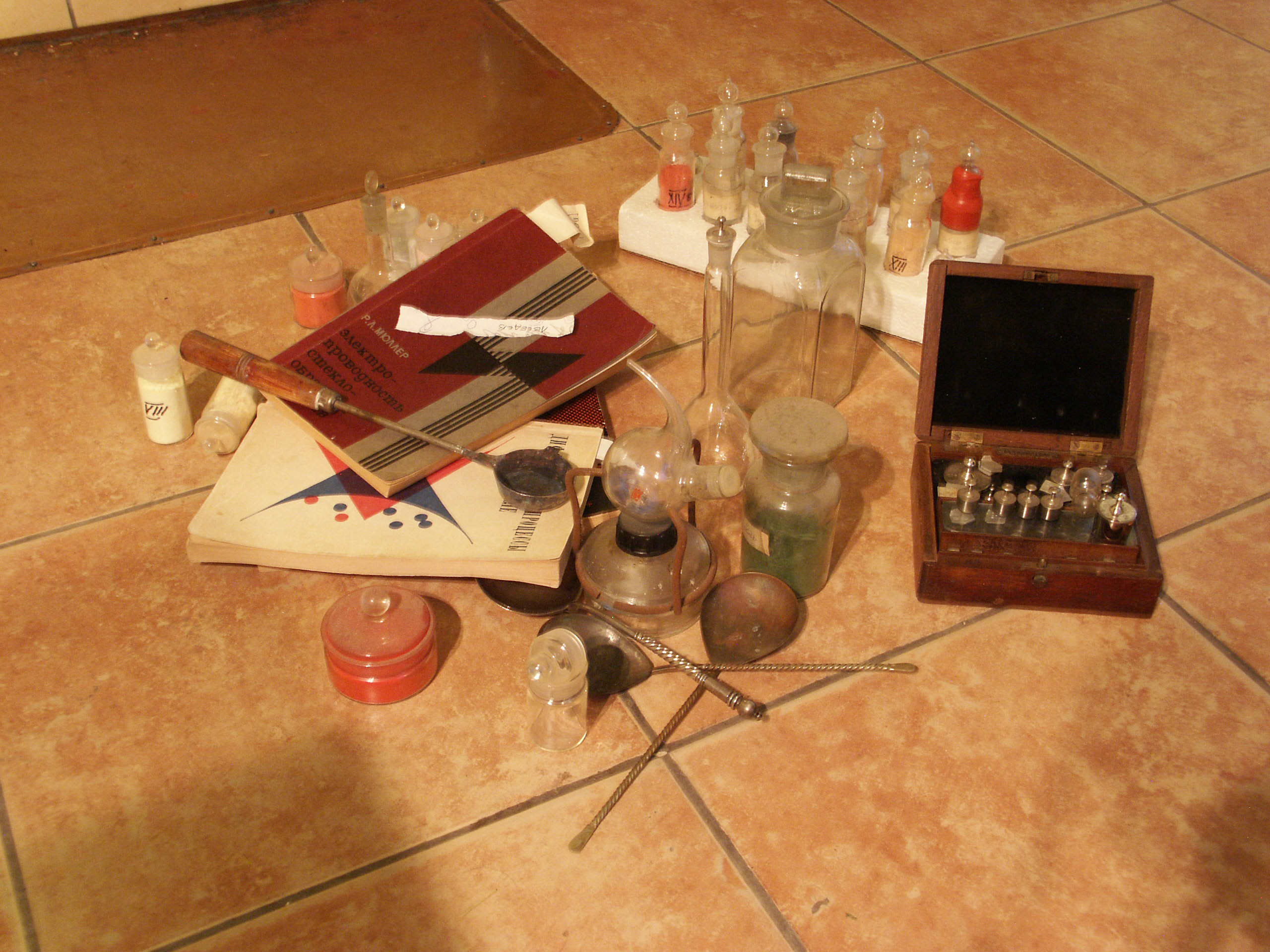 Illustration for article of ru.wikipedia -- МюллерБ Рудольф людвигович